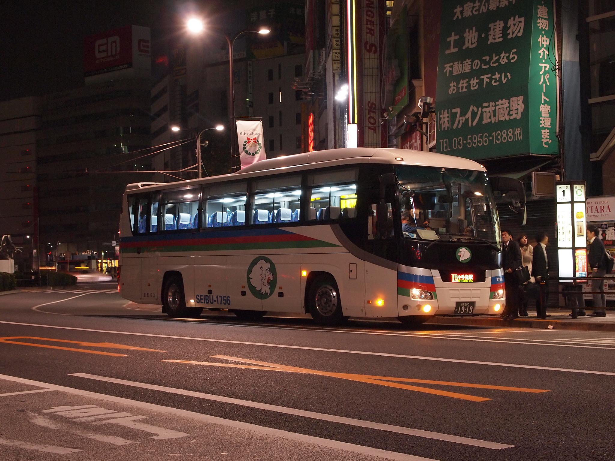 Midnight Express of Seibu Bus, bound for Kotesashi, Tokorozawa City, Saitama from Ikebukuro, Tokyo. Model: Isuzu Gala RU1ESAJ License plate: TKN200KA1919